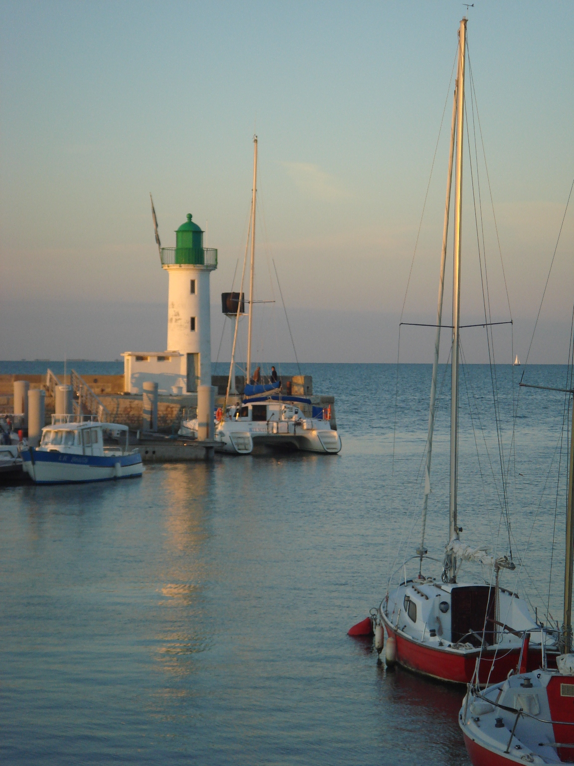 Entrance to the harbour of La Flotte